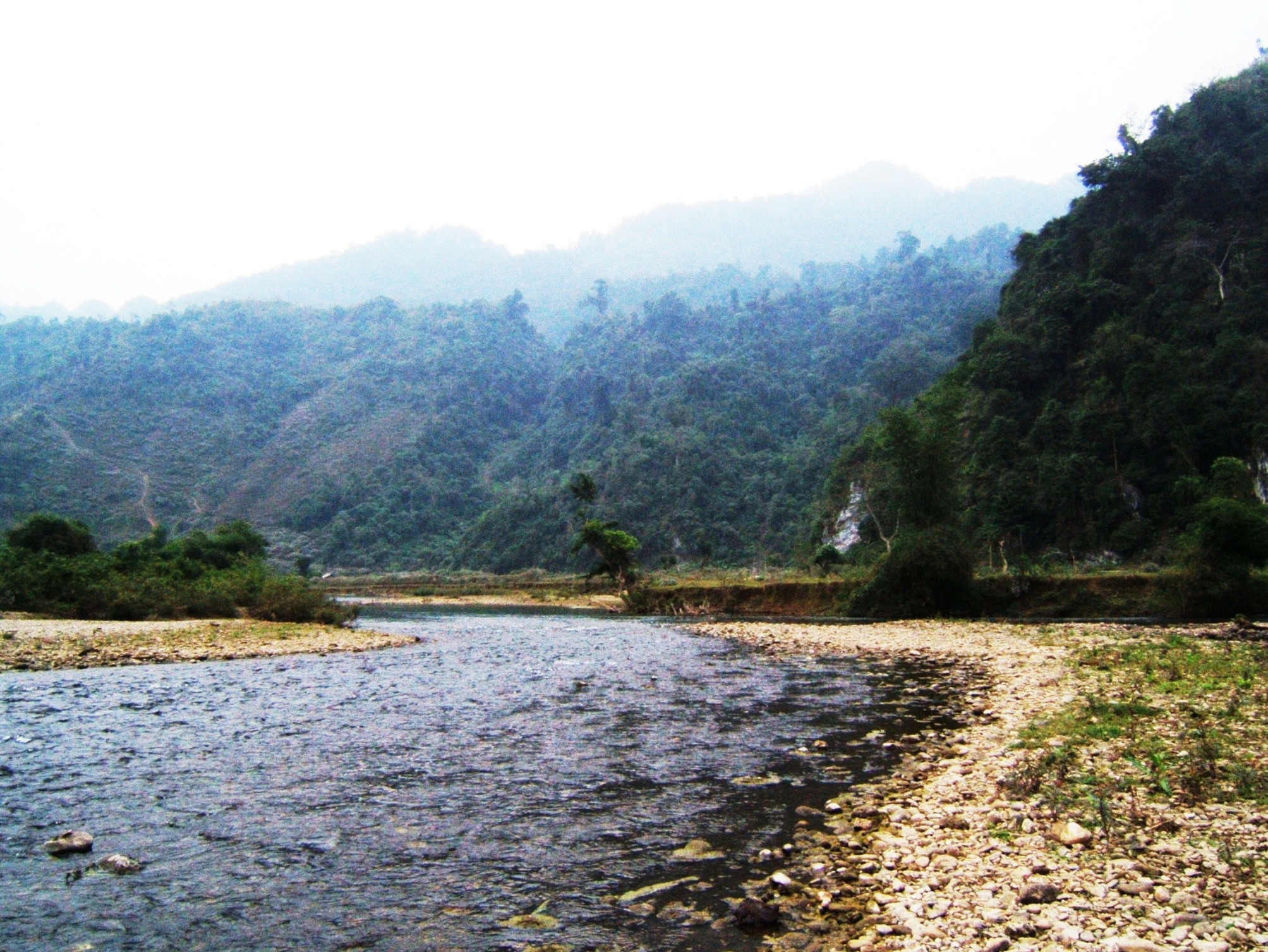 Nam Ma river in Minh Ngoc commune, Bac Me district, Ha Giang province, Vietnam